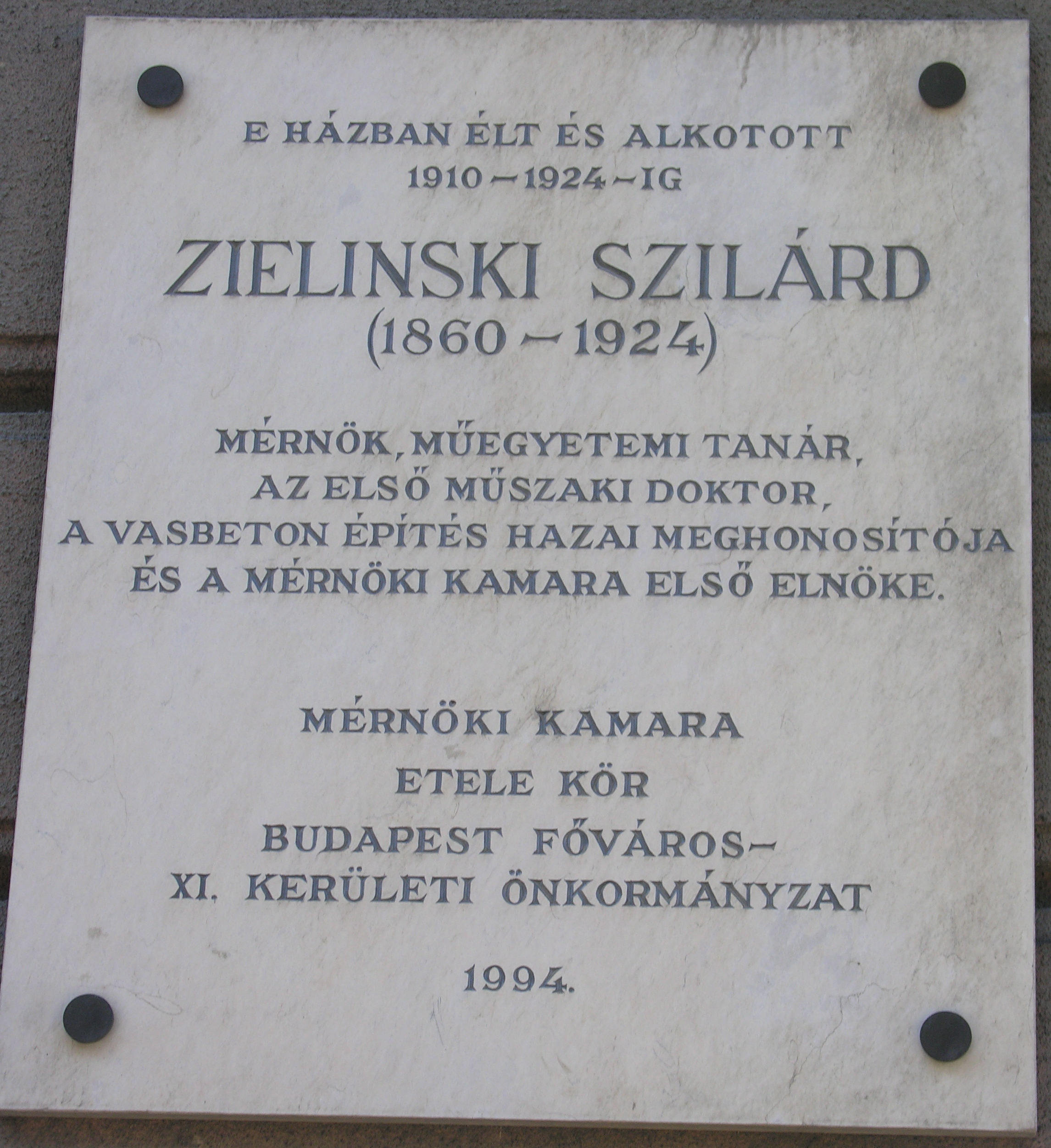 Commemorative plaque of Szilárd Zielinski in Budapest District XI, Budafoki Street No 3